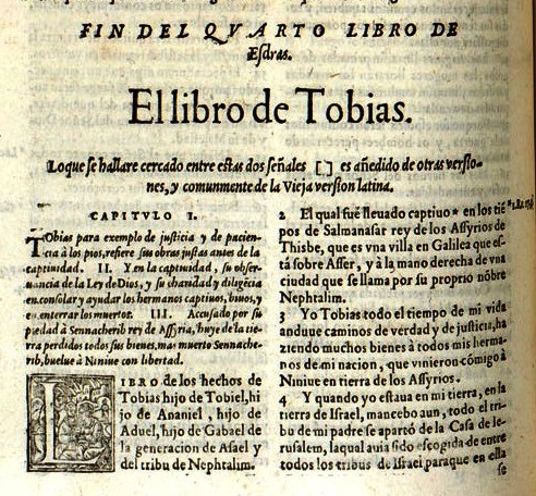 Part of a page of the Bible of the Bear, containing the transition from the Book 4th of Ezra (2 Esdras) to the Book of Tobias.